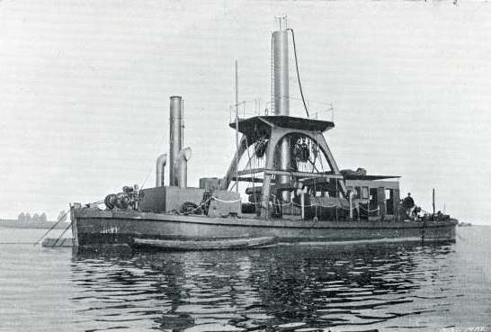 Caisson diving bell barge built for the Admiralty for service in Gibraltar. Forrestt & Co. Ltd., 1905 Catalogue, Page 59.